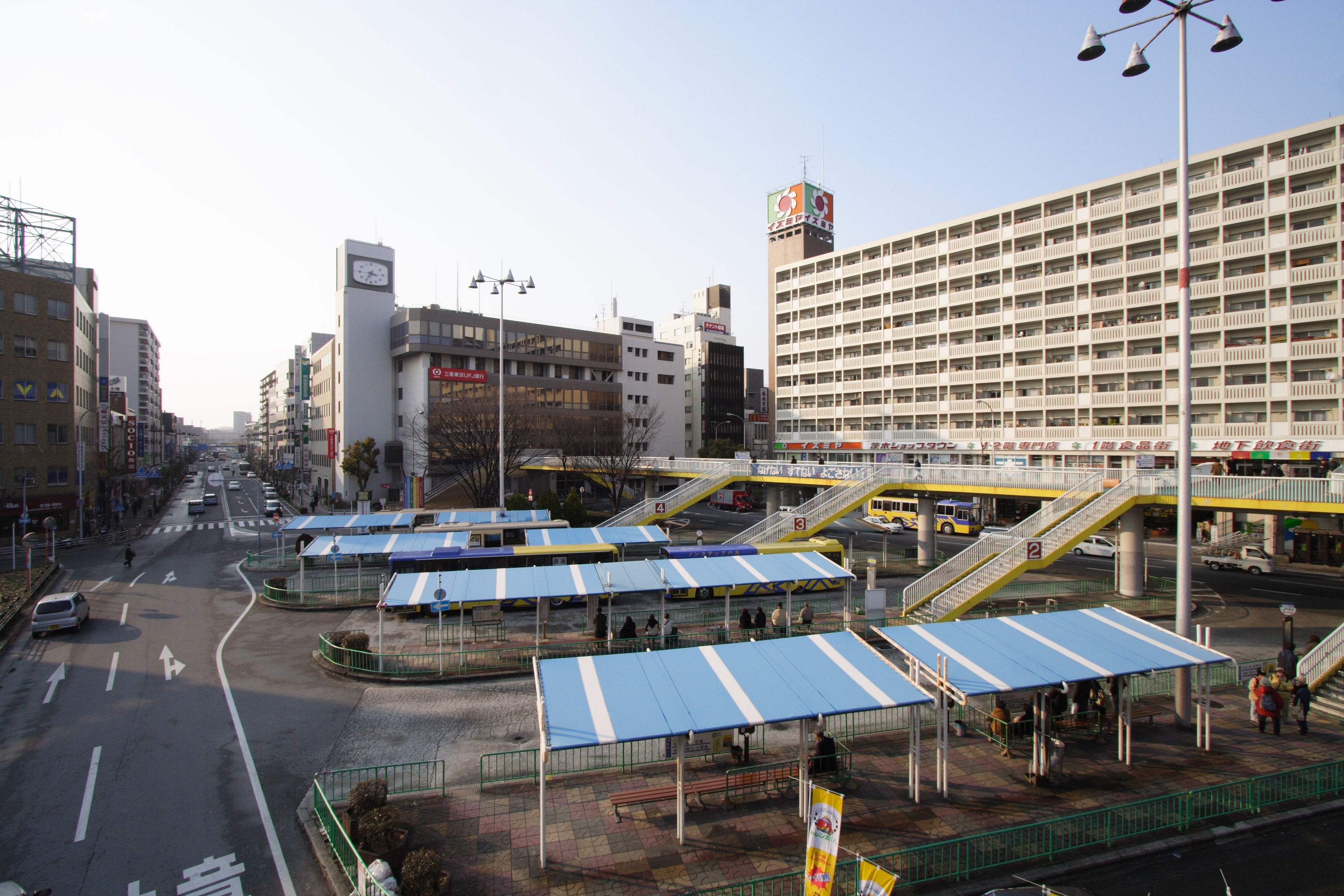 view from west side of Ibaraki station of JR West company/JR西日本茨木駅西口から